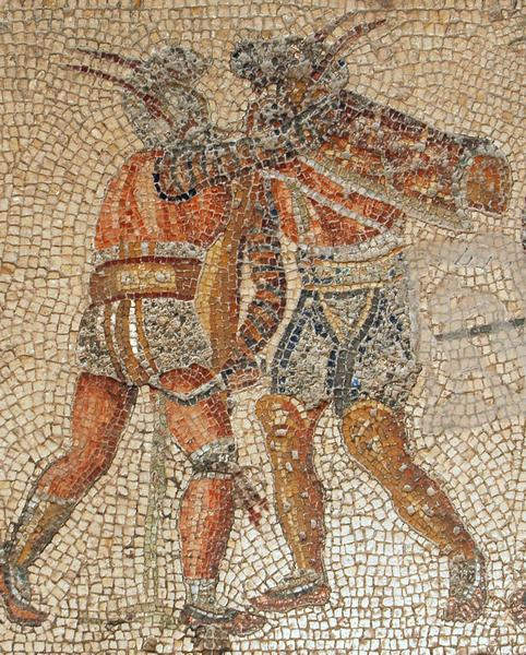 A murmillo faces a Thracian in this scene from the Zliten mosaic